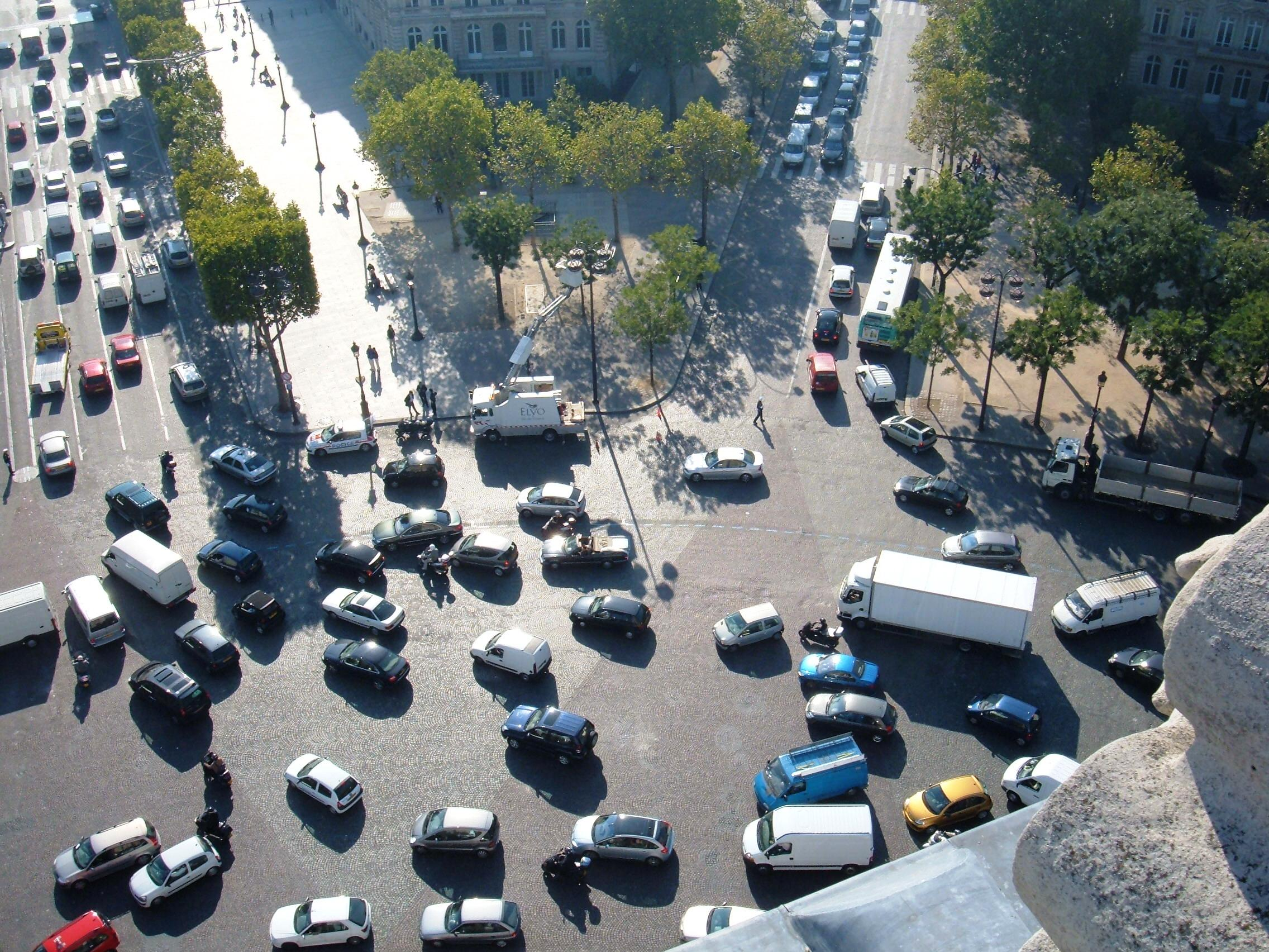 Street traffic in the Place de l'Étoile as seen from the top of the Arc de Triomphe in Paris, France.